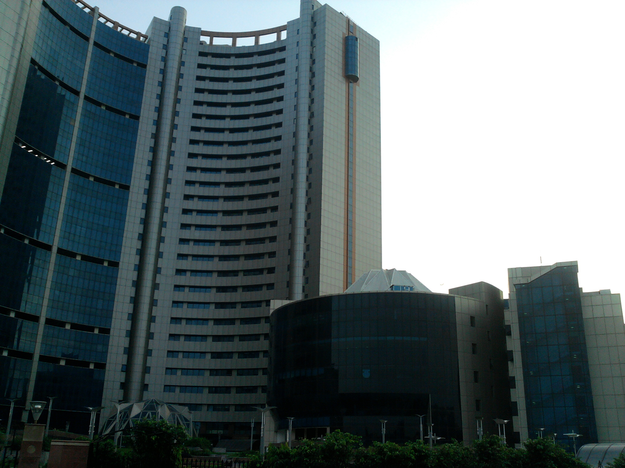 MCD Civic Center, New Delhi